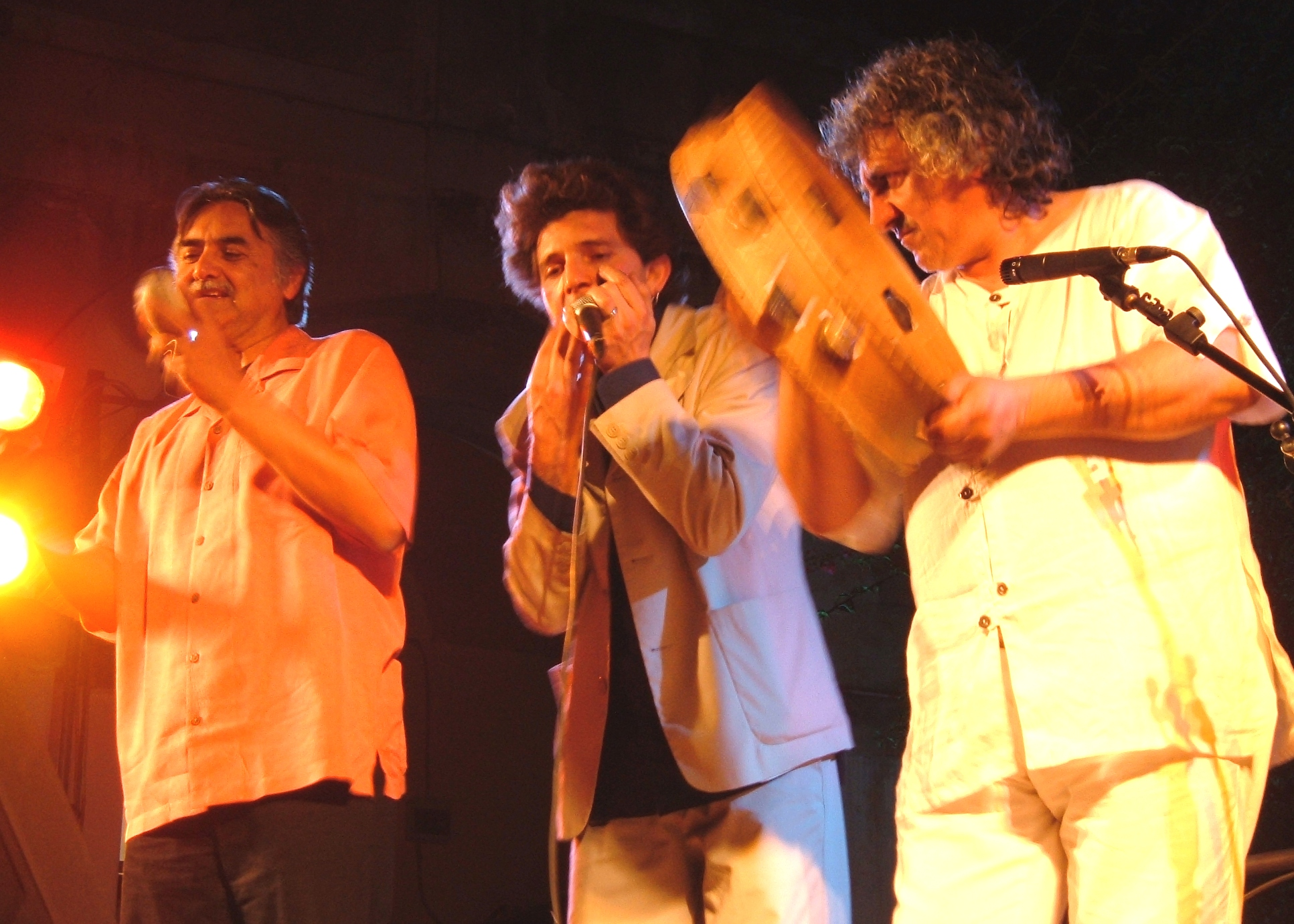 Glen Vélez, Luca Recupero and Alfio Antico on stage at the 2nd Marranzano World Festival in Catania, Italy